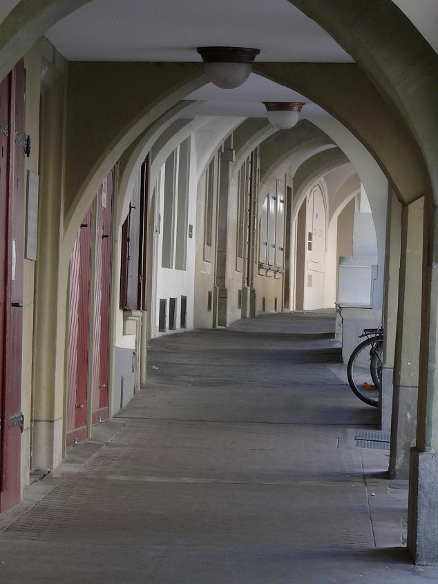 Arcades of Berne